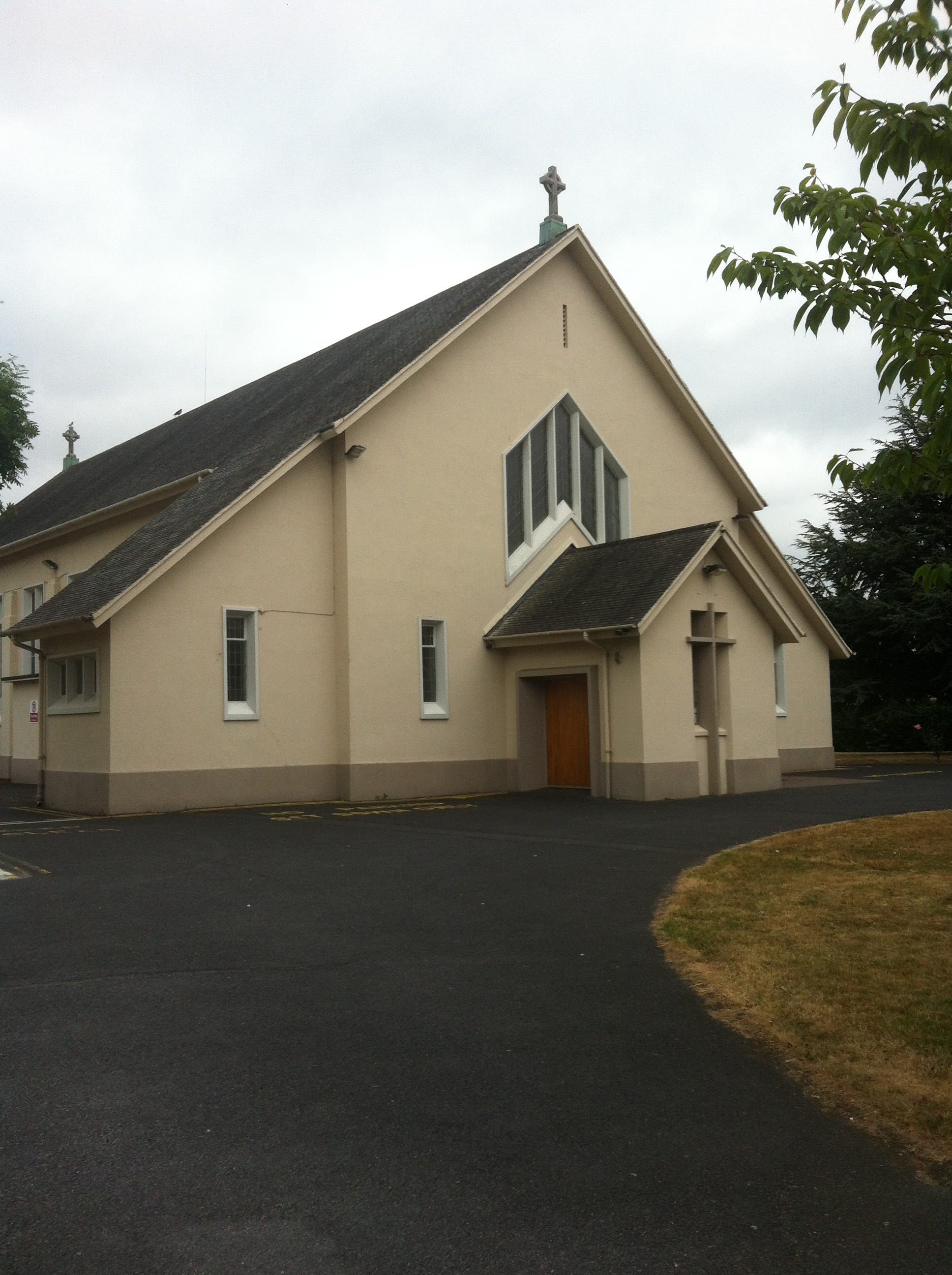 This is a photograph of the church in Palmerstown, Co. Dublin